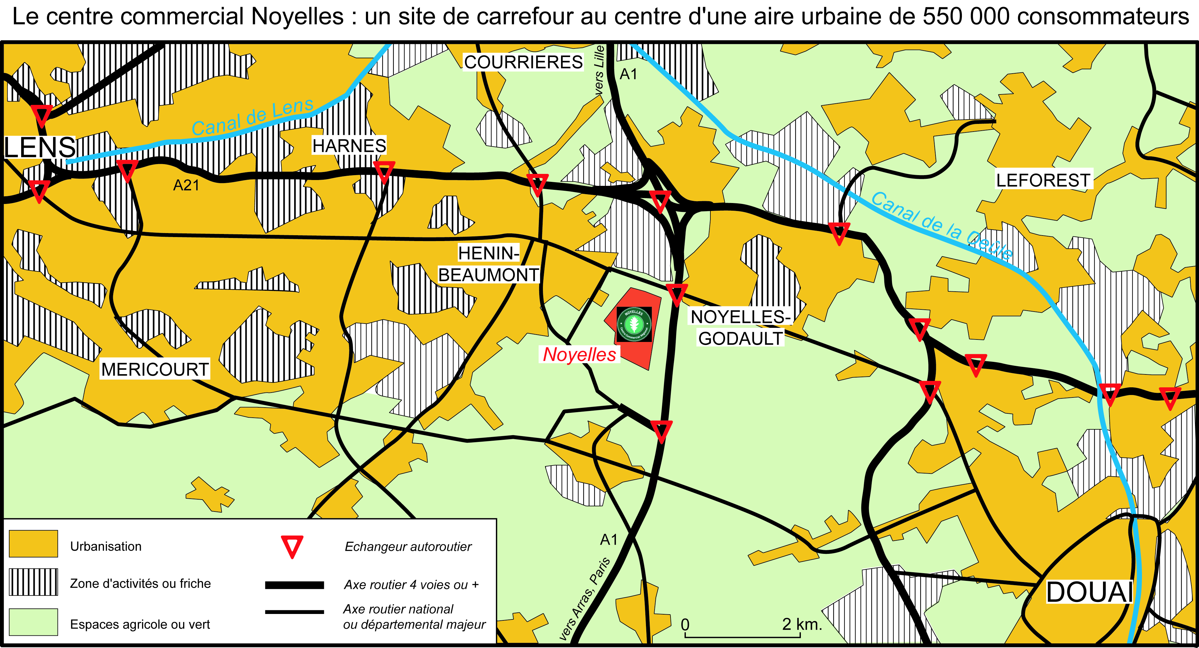 Situation's Sketch of the Noyelles shopping mall in the center of an urban area of 550.000 consumers.